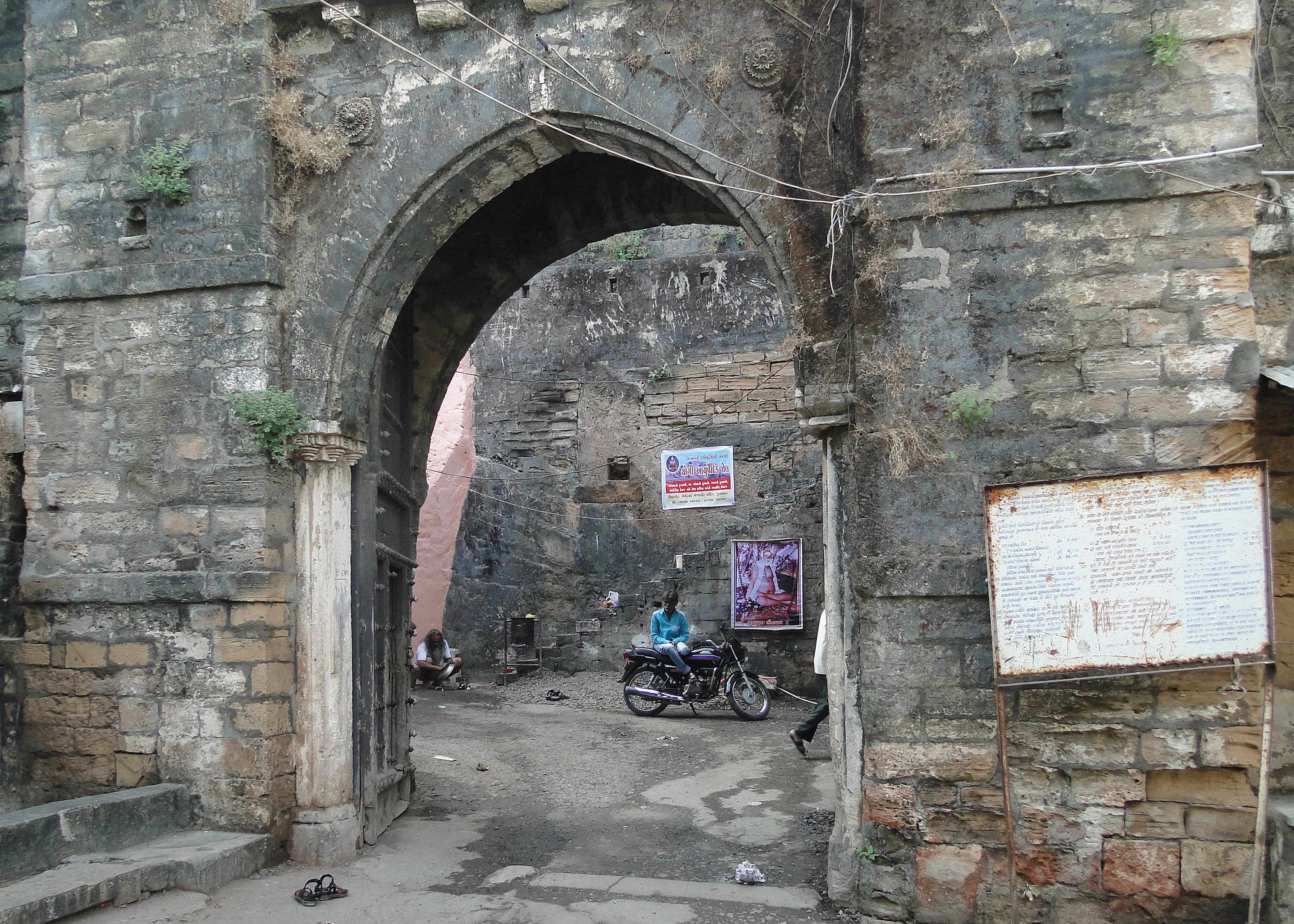 Gate of Uperkot Fort, Junagadh, India